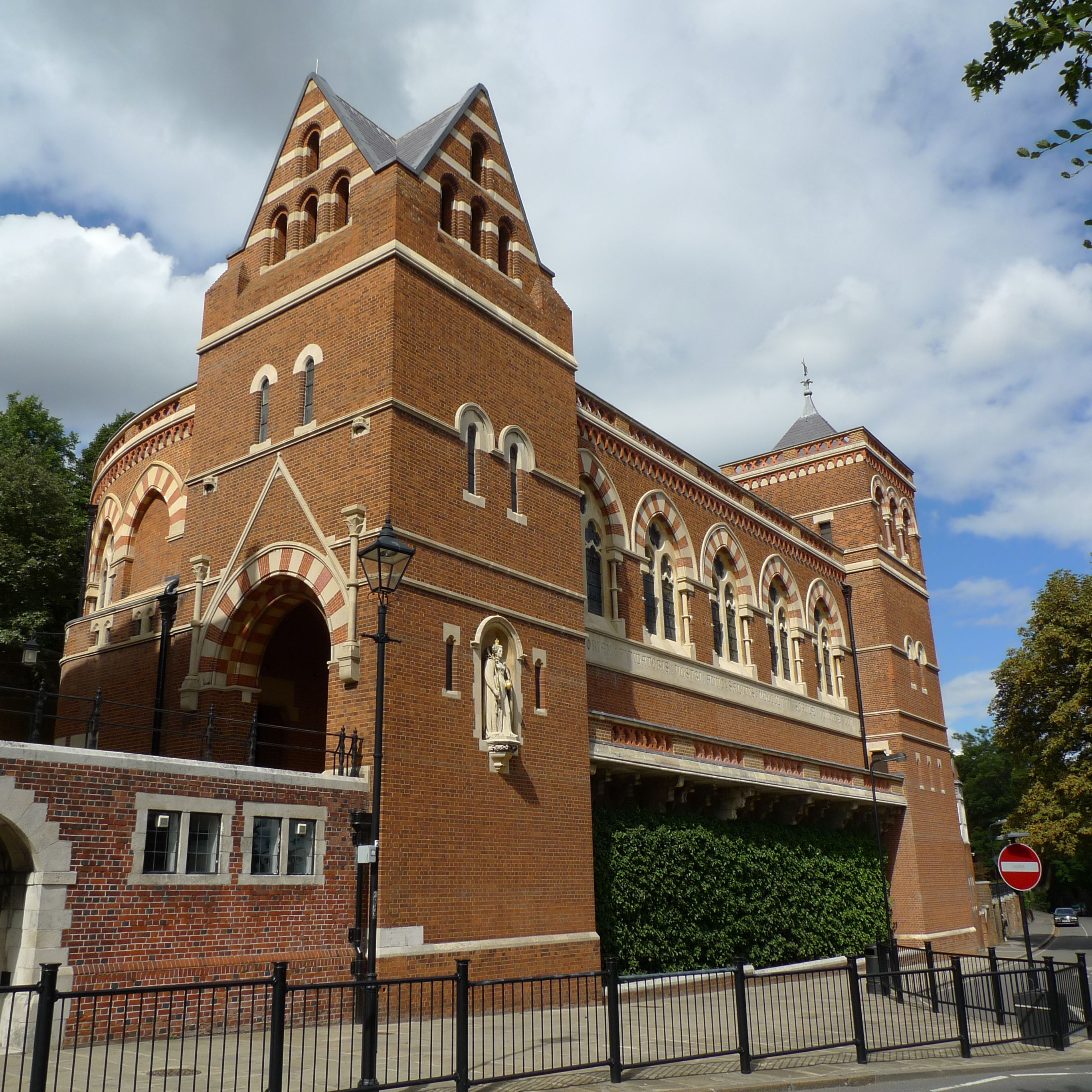 Speech Room, Harrow School. A statue of Queen Elizabeth I is inset into the external wall.